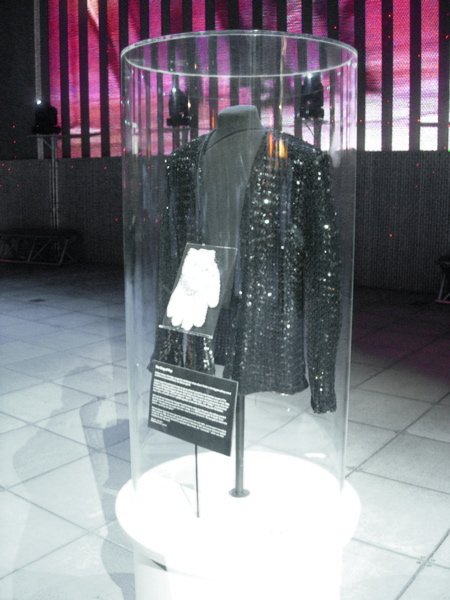 from the famous Motown 25 performance.